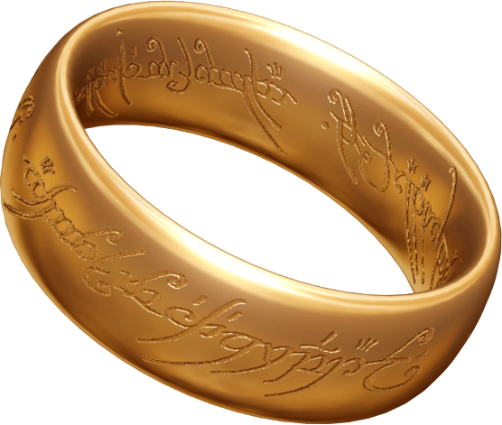 The One Ring from J. R. R. Tolkien's work.